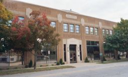 This is a photo of the Auburn Cord Duesenberg Museum in Auburn, Indiana USA. The building once housed the offices of the Auburn Automobile Company. I took this picture have the right to use it.